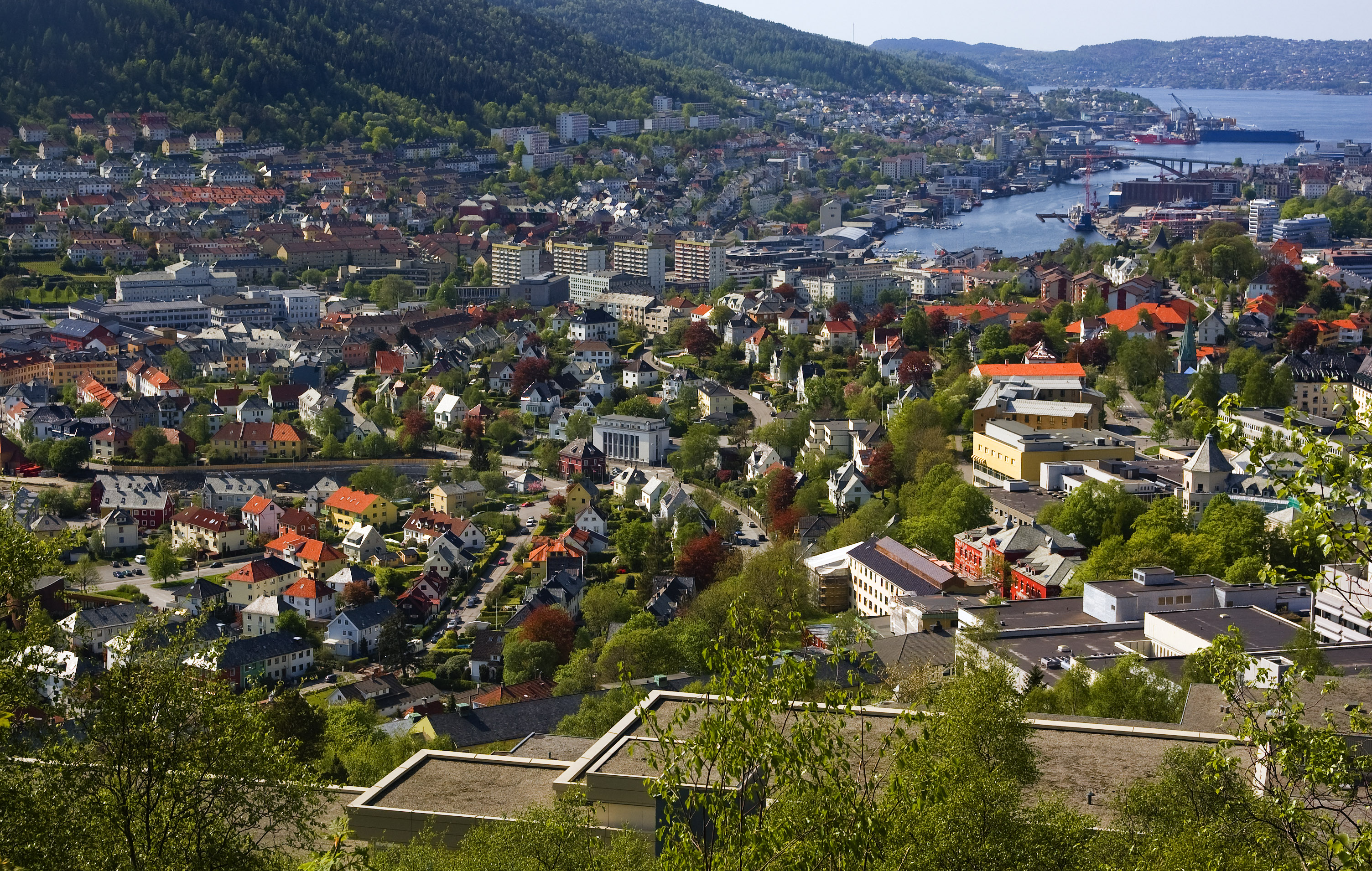 Foreground: (until the highrise buildings with green roofs) Kronstad, a neighbourhood in Årstad borough in Bergen, Norway. The city's hospital in the foreground. Background, left: Part of the Løvstakksiden neighbourhood along mount Løvstakken. Background, right: Part of Laksevåg borough. Background, upper right corner: Askøy. Right of Laksevåg: Part of the city centre.